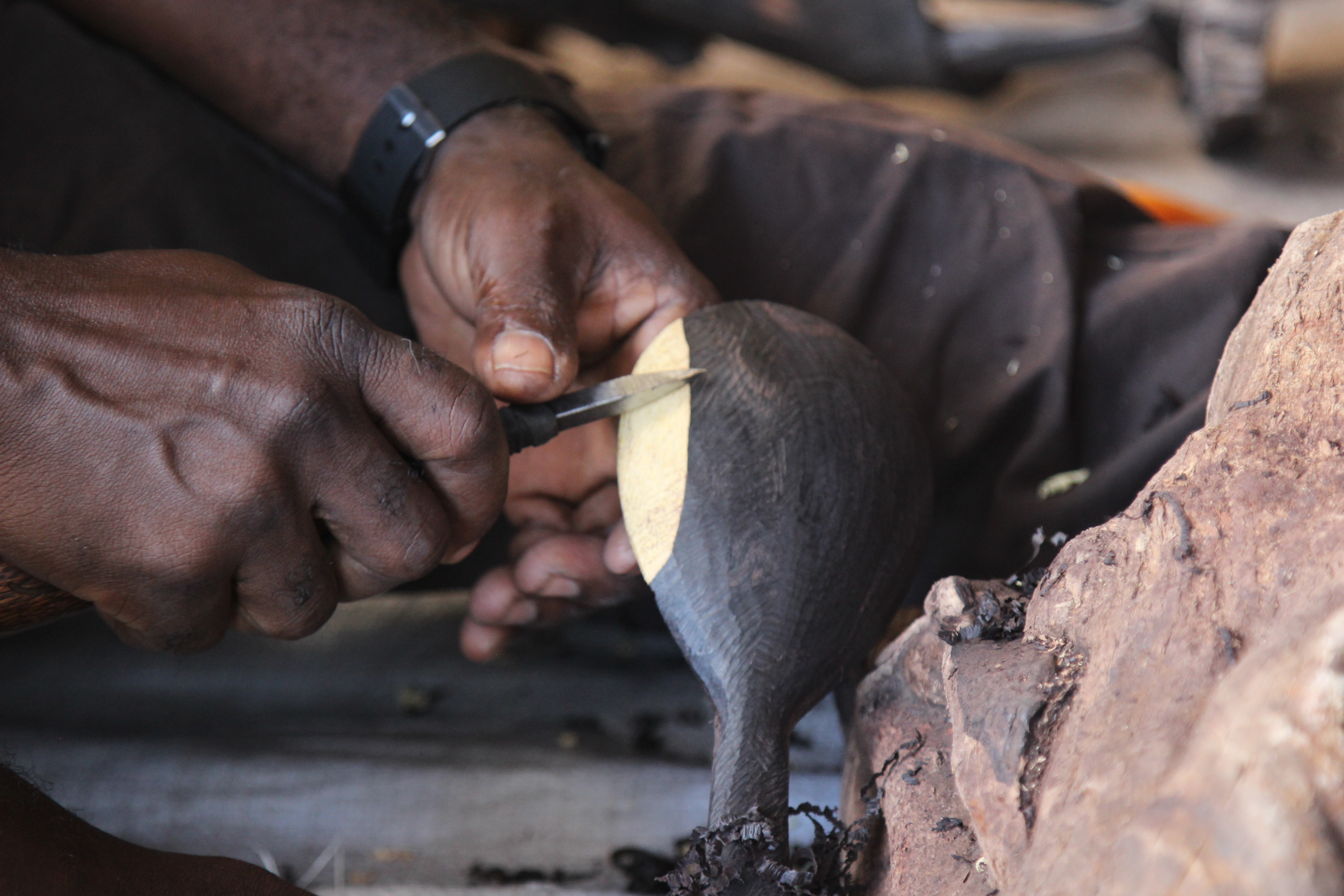 This is an image of "African people at work" from Tanzania